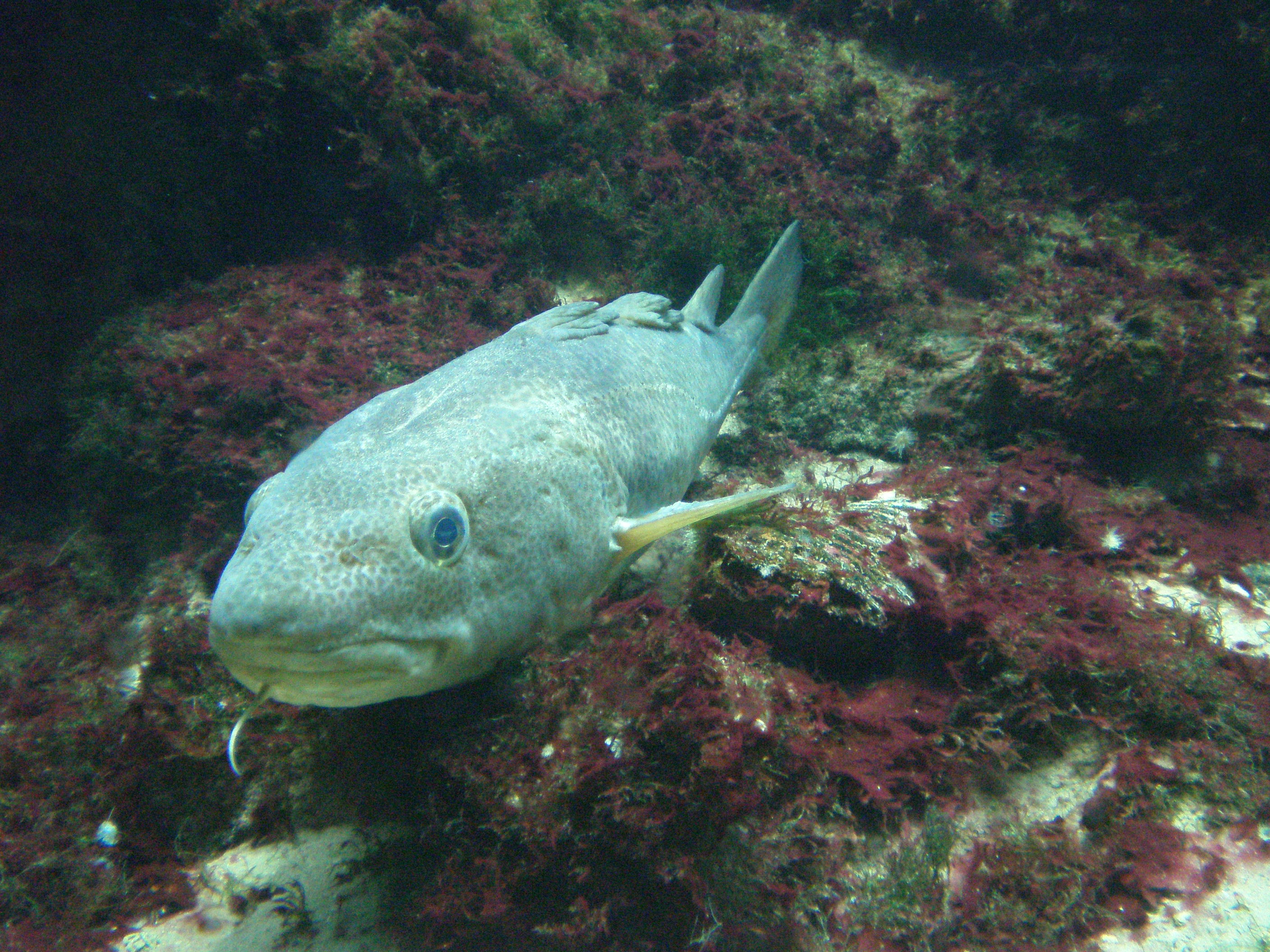 The Atlantic cod (Gadus morhua).